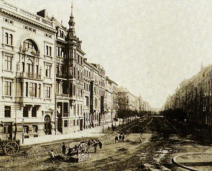 Cologne, Hohenzollernring 1886